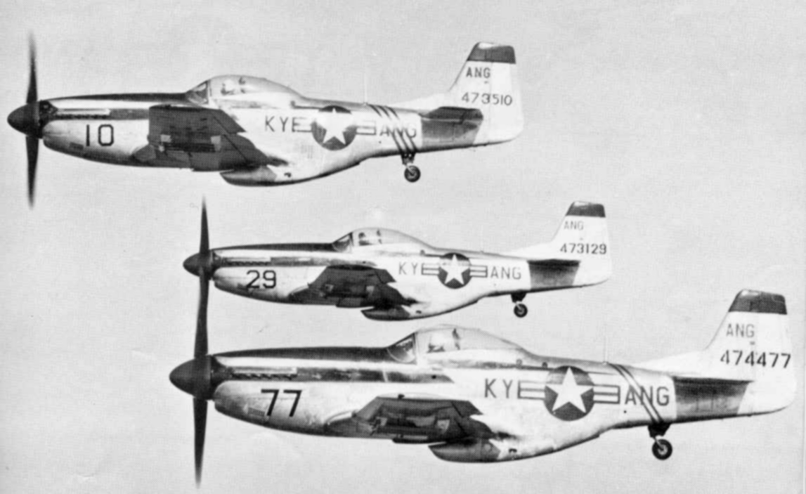 Three U.S. Air Force North American F-51D Mustang fighters (s/n 44-73129, 44-73510, 44-74477) from the 165th Fighter Squadron, 123rd Fighter Group, Kentucky Air National Guard, in flight. The 123rd FG flew the F-51 from 1946 to 1952.